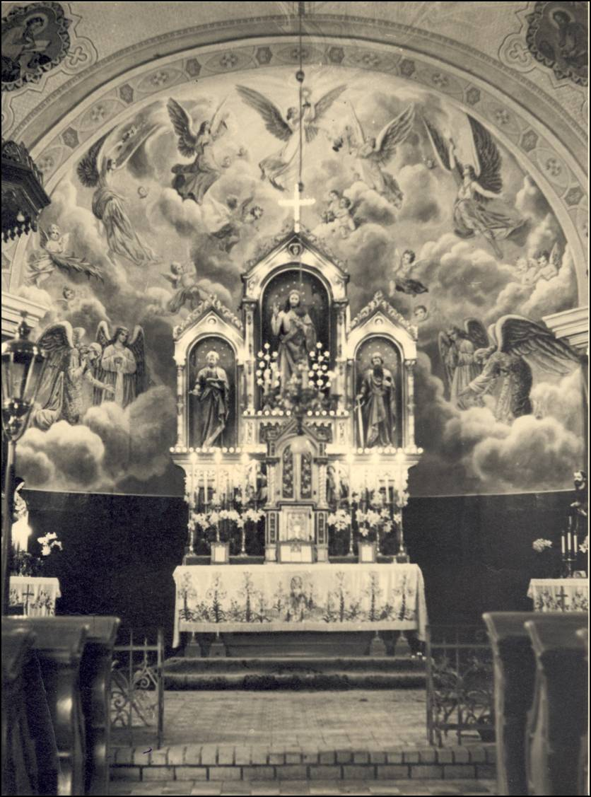 The great altar of church in village Kavečany in year 1930